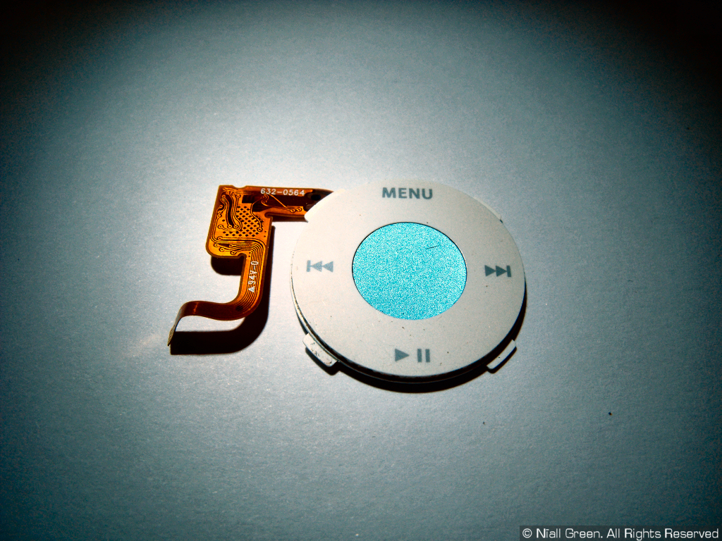 A photograph of the touch-sensitive "clickwheel" from a third generation iPod Nano.